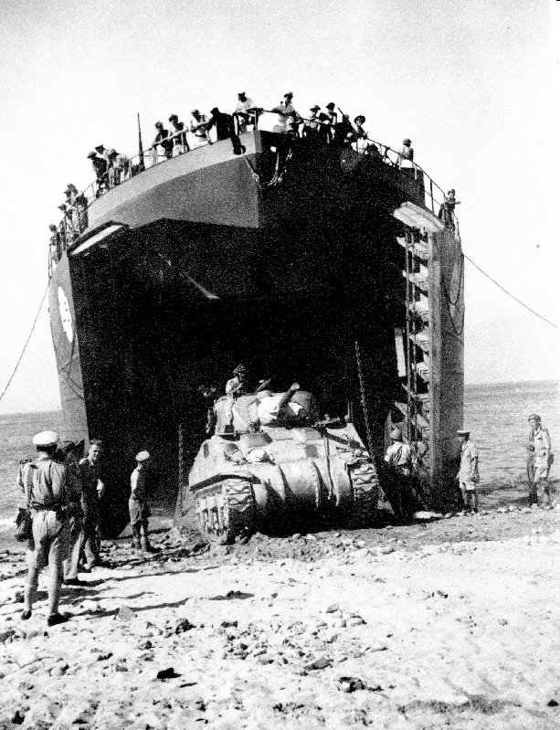 Canadian LST offloading a Sherman Tank on the beach during the Allied invasion of Sicily in 1943.